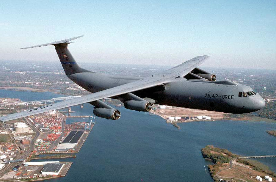 Lockheed C-141A-15-LM Starlifter 64-0616. (c/n 300-6029) Entered service 1965. Converted to C-141B about 1980/81. Retired to AMARC as CR0110 Sept 5, 2000. Photo shows aircraft flying over Philadelphia, Pennsylvania, fall 1998